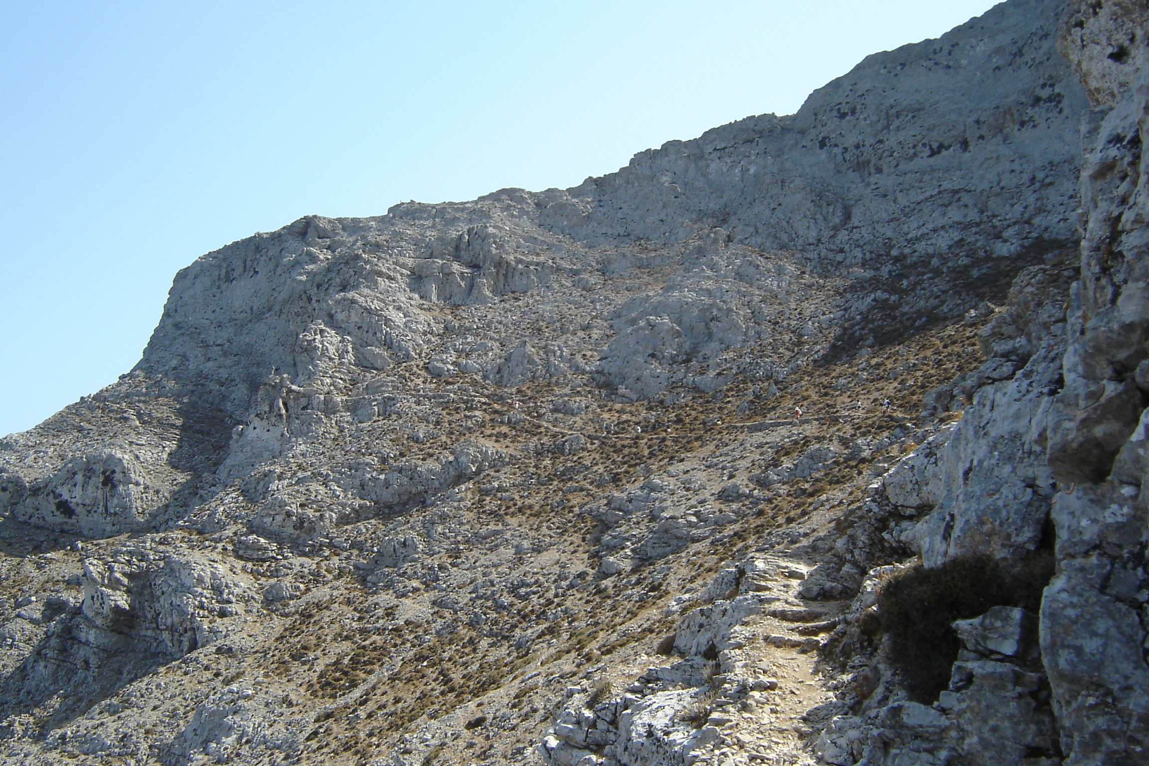 Path Lagada - Ag. Theologos - Stavros in Amorgos